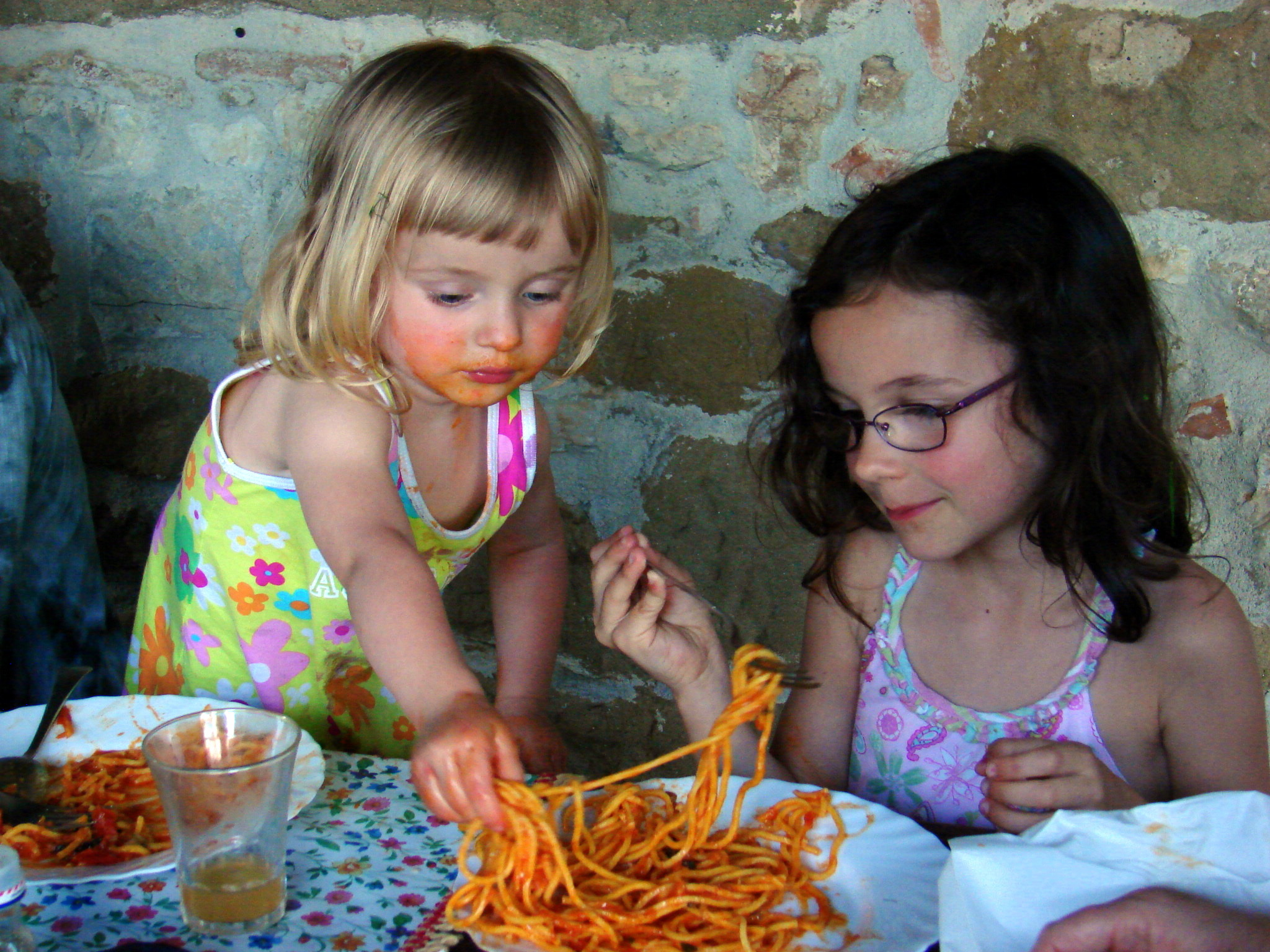 Two young girls sharing a plate of spaghetti. Original caption: "I'm not sure Mina knew what she was in for when Viola wanted to share."